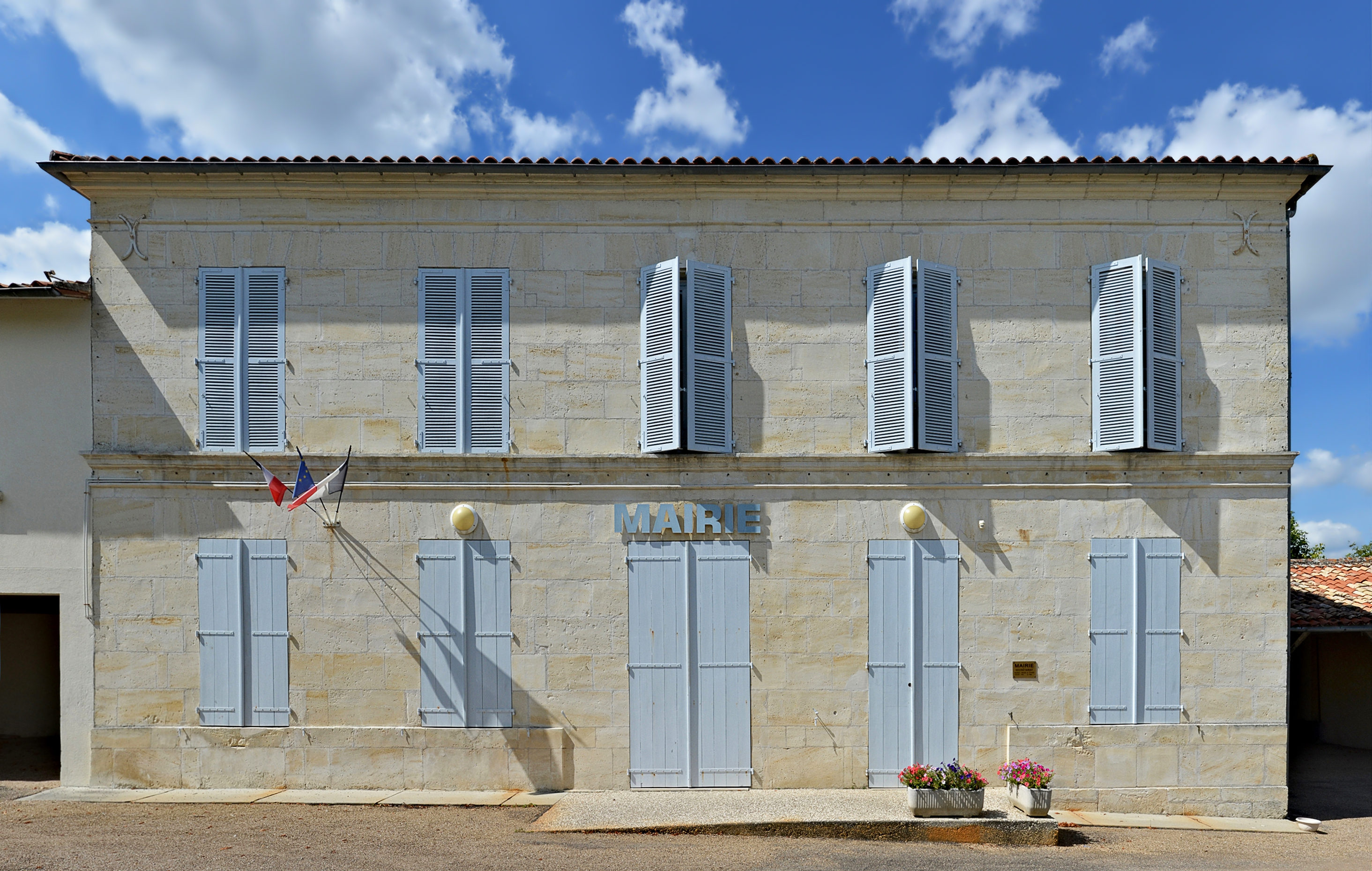 Facade of the town hall of Lamérac, Charente, France